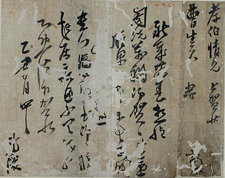 Letter of Ahn Bang-jun